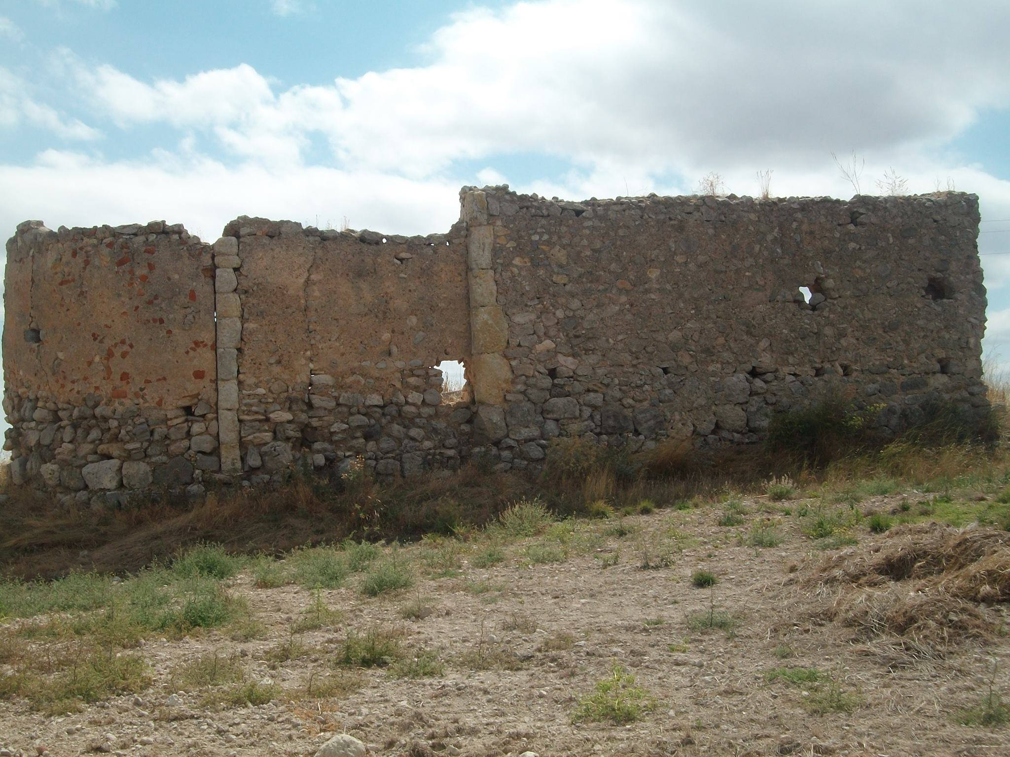 Ruins of Santo Domingo Churcha, located al the abandoned village of Villarpardo, Saragossa.